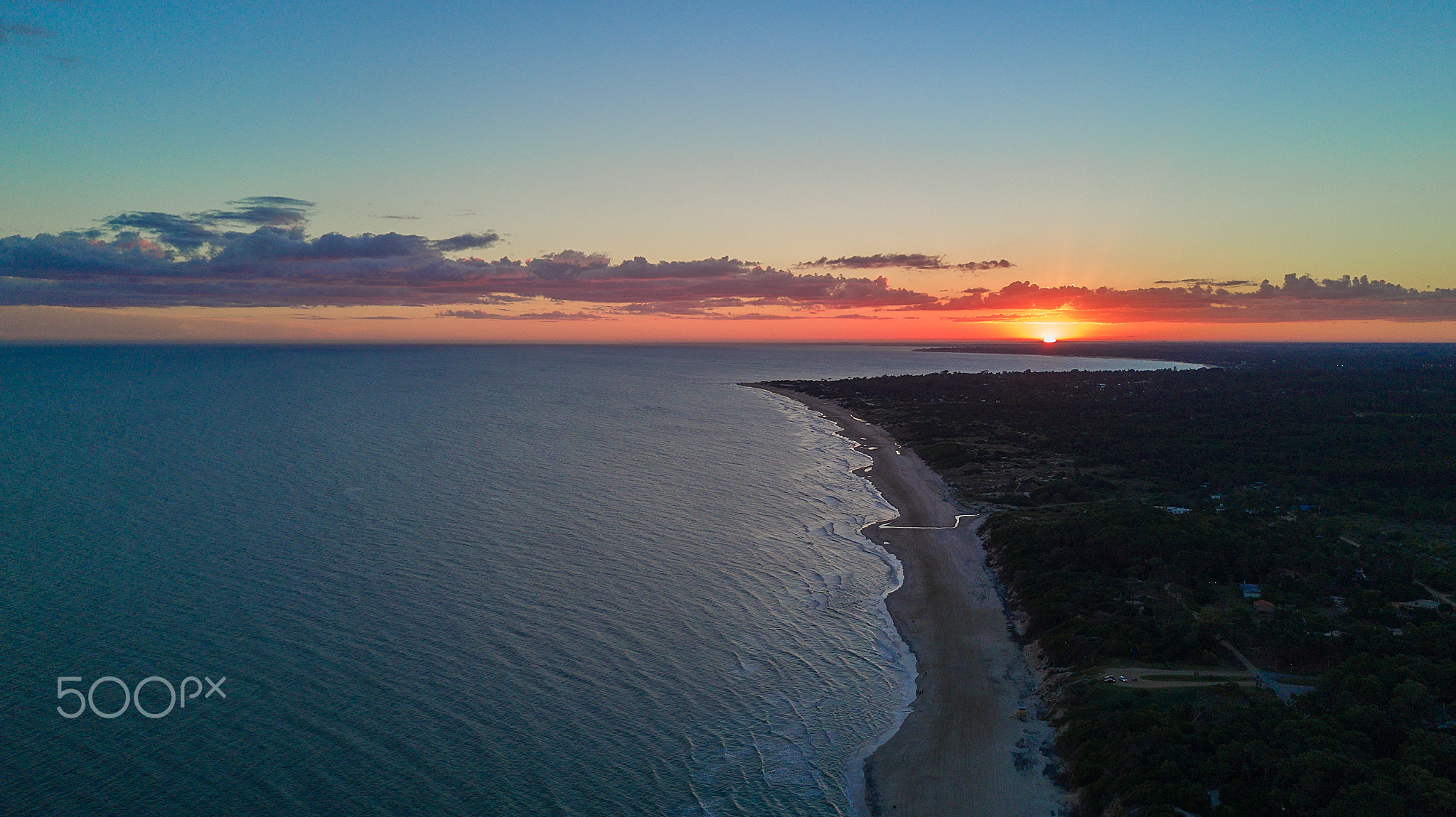 500px provided description: Sunset over Beach Guazuvira Video on Youtube: [#trees ,#sky ,#landscape ,#sea ,#beauty ,#sunset ,#water ,#beach ,#travel ,#blue ,#sun ,#light ,#clouds ,#ocean ,#tree ,#summer ,#beautiful ,#aerial ,#green ,#sand ,#Blue sky ,#DJI ,#Mavic pro]